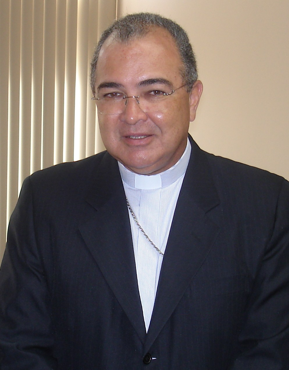 Archbishop Orani João Tempesta, O. Cist., Archbishop of Belém do Pará Belém do Pará, Brazil. 2006.